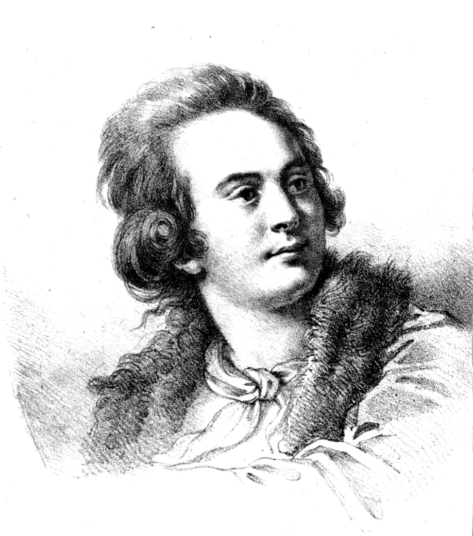 Self-Portrait of Pierre-Louis de La Rive, Swiss draftsman, engraver & painter (1753-1818)